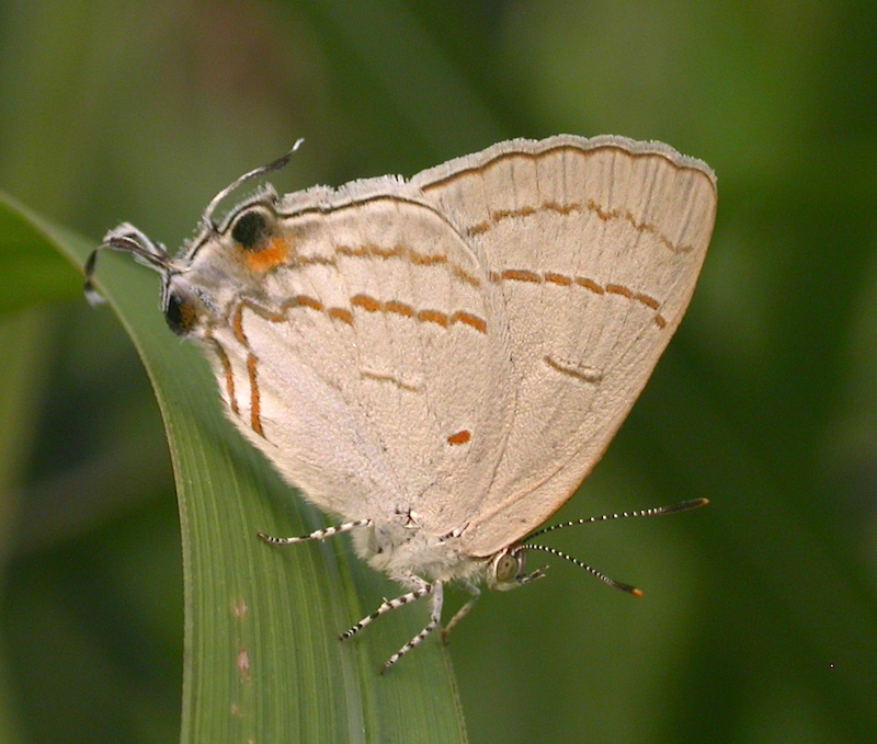 Hypolycaena philippus philippus, Hotel Marina grounds, Cotonou, Benin, 29 April 2012 (underside)